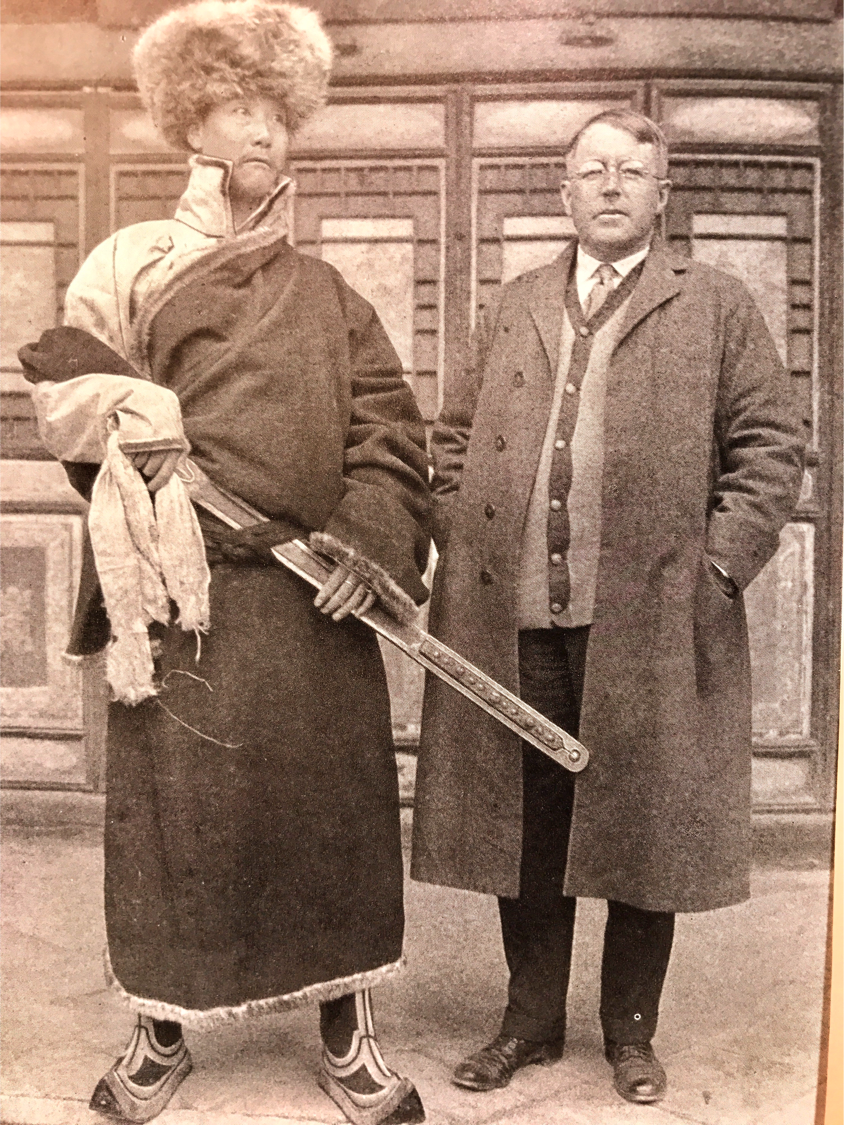 Rock in Yunnan